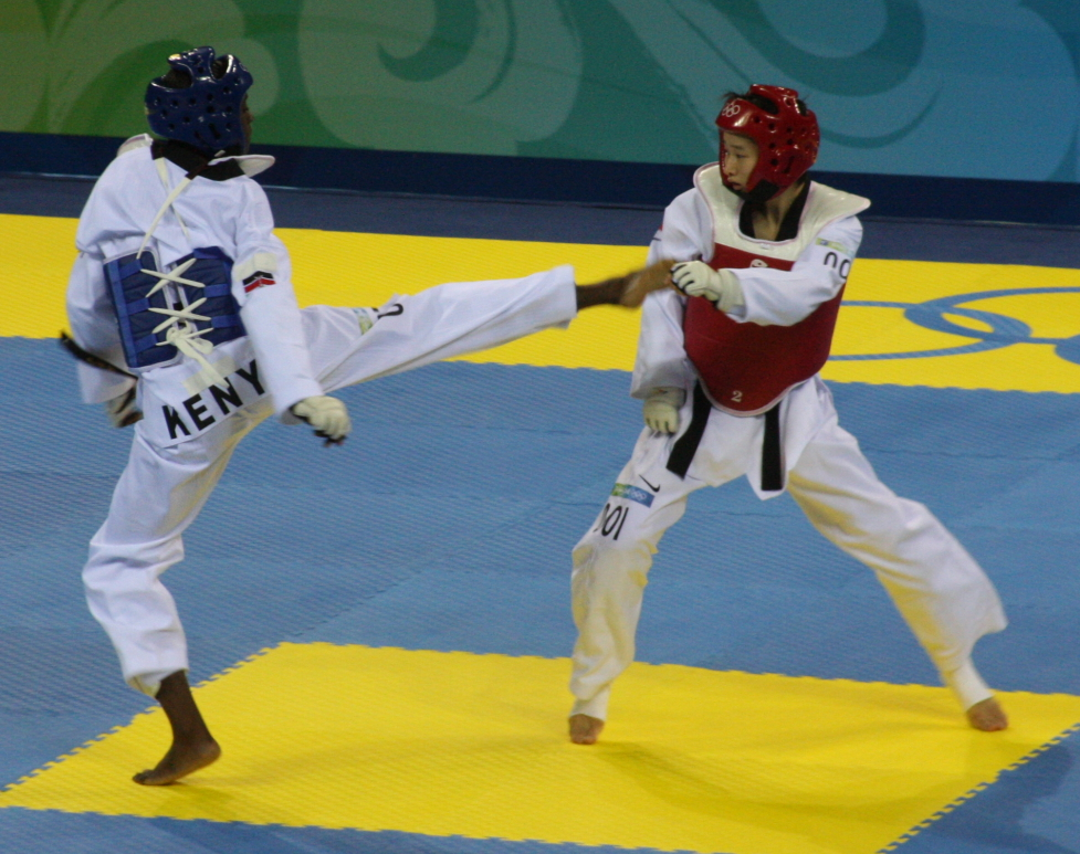 2008 Summer Olympics Taekwondo - Mildred Alango (KEN, blue) v. Wu Jingyu. (CHN, red)